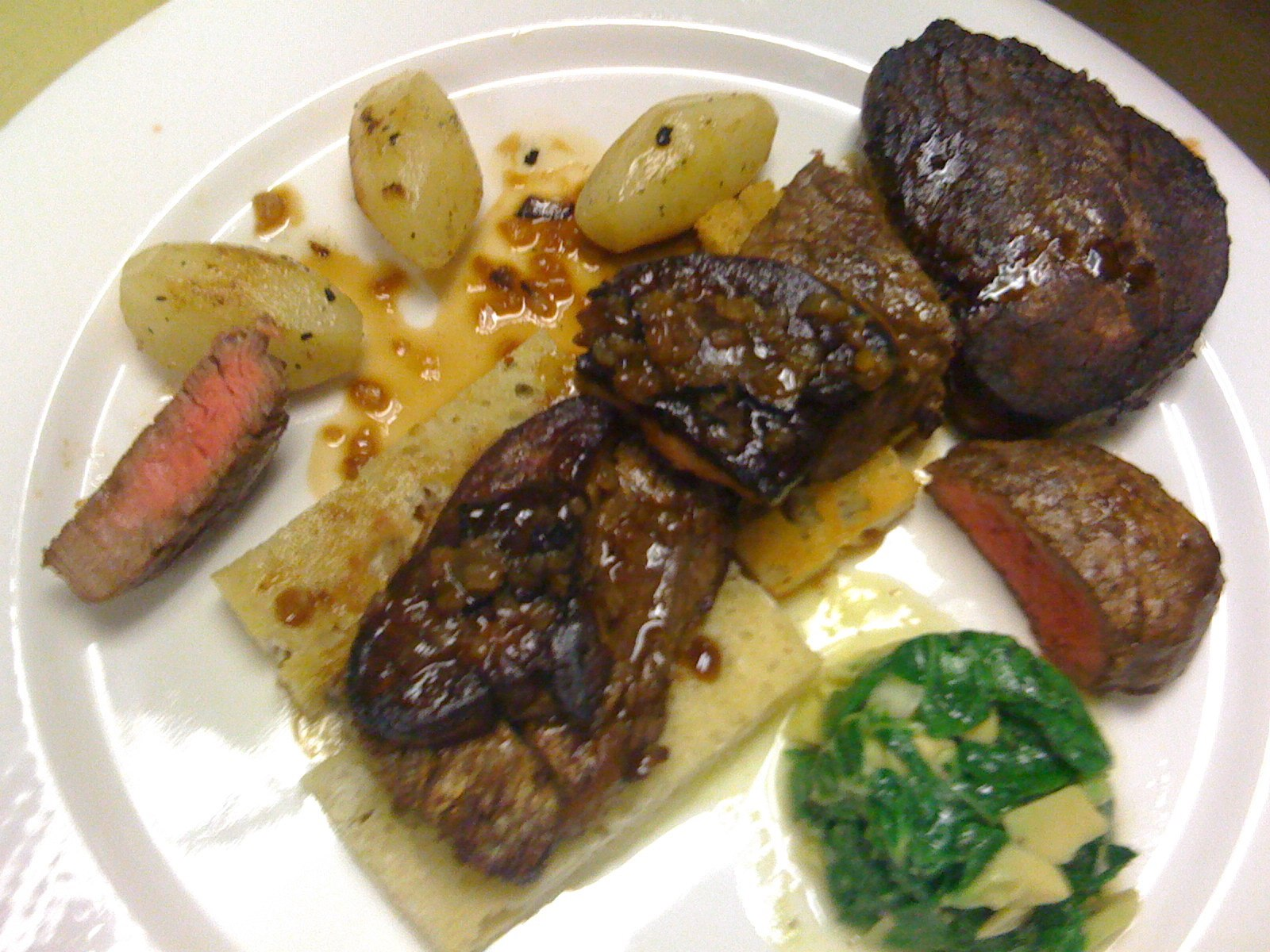 Tournedos Rossini with Foie Gras and Truffle sauce on biscotti doppo with a avocado bok choi salad and tournee potatoes. The two pieces of cut meat are demo pieces for doneness.